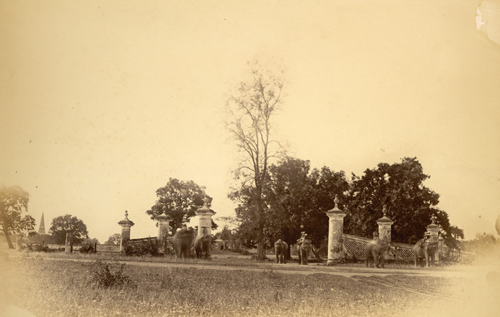 Photograph of the Ramna Gate to the Race Course, in Dhaka, now capital of Bangladesh taken in the 1870s by an unknown photographer. The view shows a number of elephants being ridden through the gate. The Race Course is now the Subrawardy Udyan - Ramna Park in the city and a popular place for recreation.